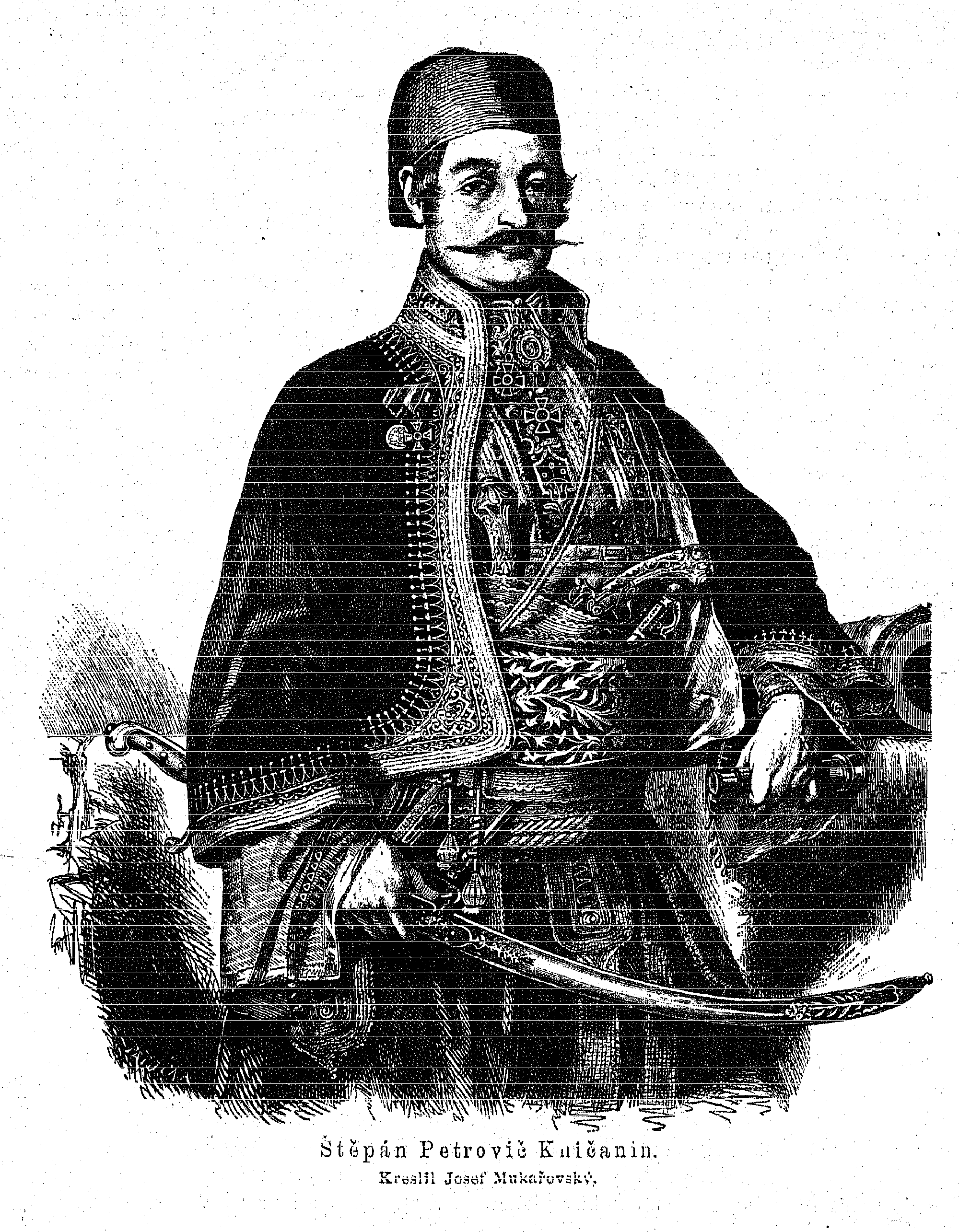 Portrait of Stevan Petrović Knićanin (1807 - 1855), Serbian military leader in 1848.